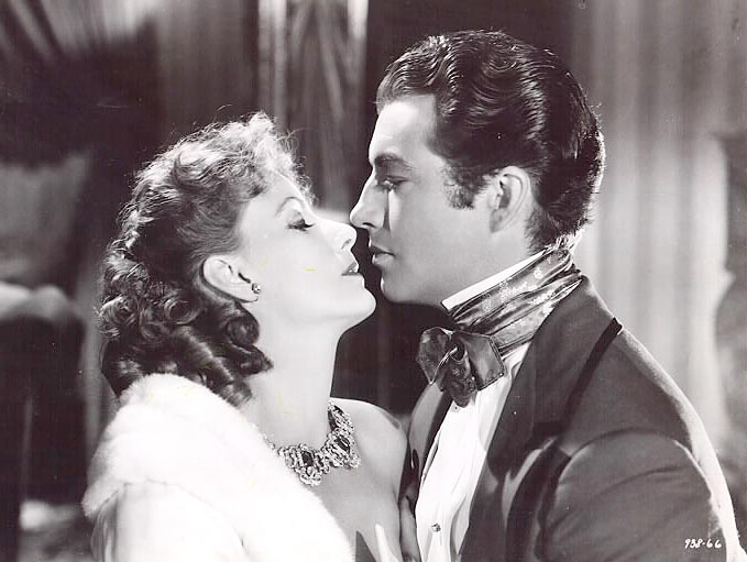 Greta Garbo and Robert Taylor in a publicity still for Camille (1936).